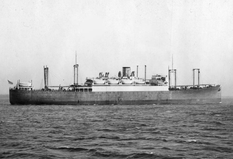 SS Hawkeye State photographed by her builder, Bethlehem S.B. Corp., Sparrows Point, Maryland, 18 December 1920, upon completion.